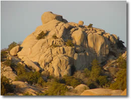 Granite knob in the Witchita Mtns. Source: US Fish & Wildlife Service